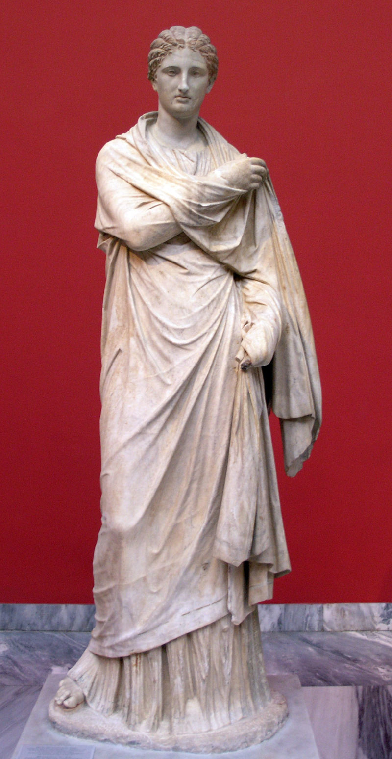 Funerary statue of a woman wearing a chiton and himation, type of the Small Herculaneum woman. Marble, Roman copy of the 2nd century after an original of ca. 300 BC. Found in Delos. National Archaeological Museum in Athens, 1827.